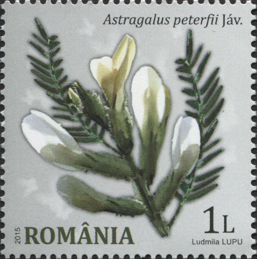 Stamps of Romania, 2015